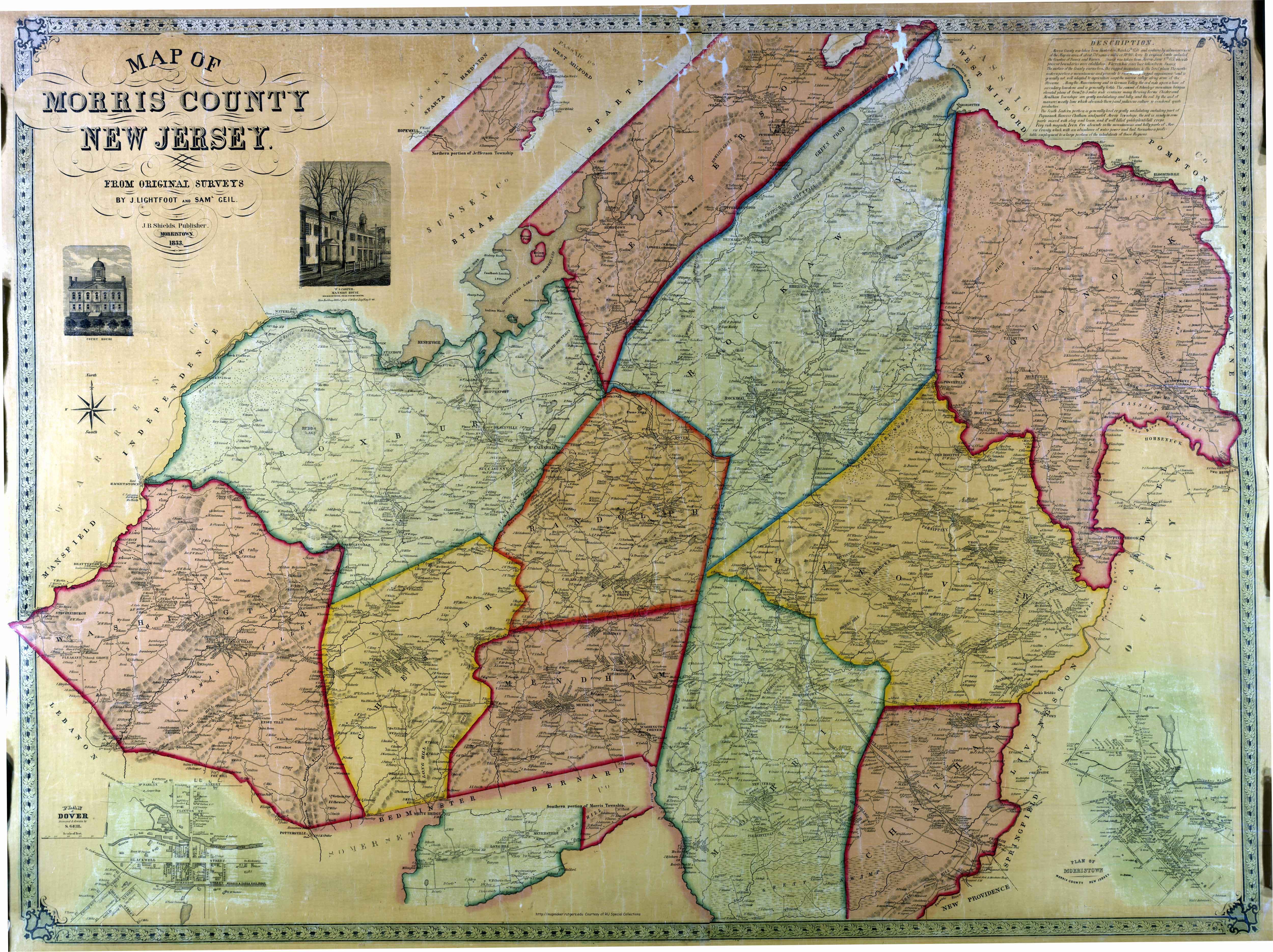 Morris County (New Jersey) in 1853